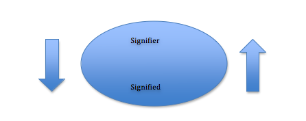 demonstrates signifier-signified relationship in words